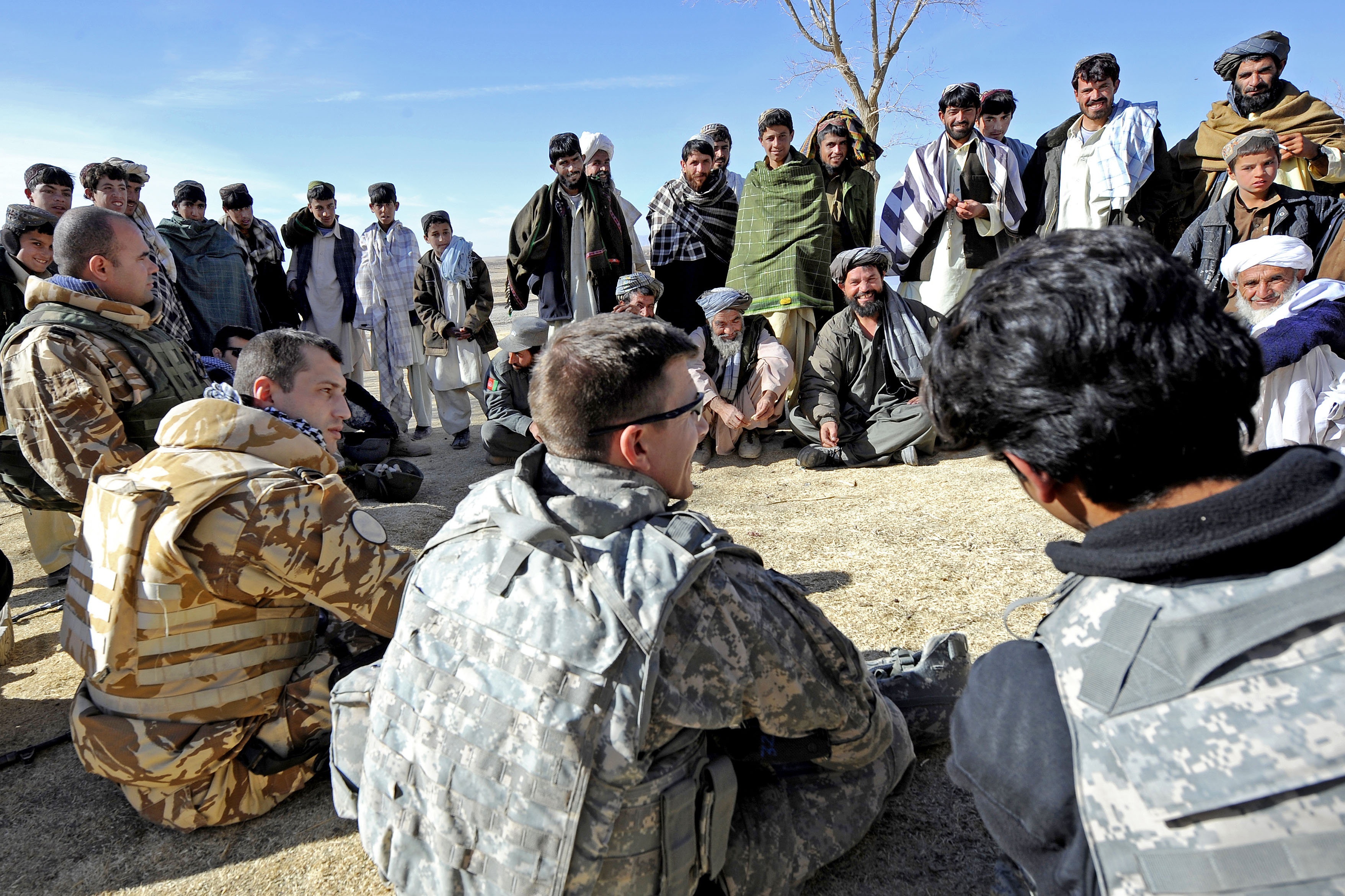 U.S. Air Force Capt. Ryan Weld (center) and Romanian Forces from Task Force Black Scorpion talk with villagers during a shura in Khleqdad Khan, Afghanistan, on Dec. 19, 2010. Weld is assigned to the Provincial Reconstruction Team Zabul.